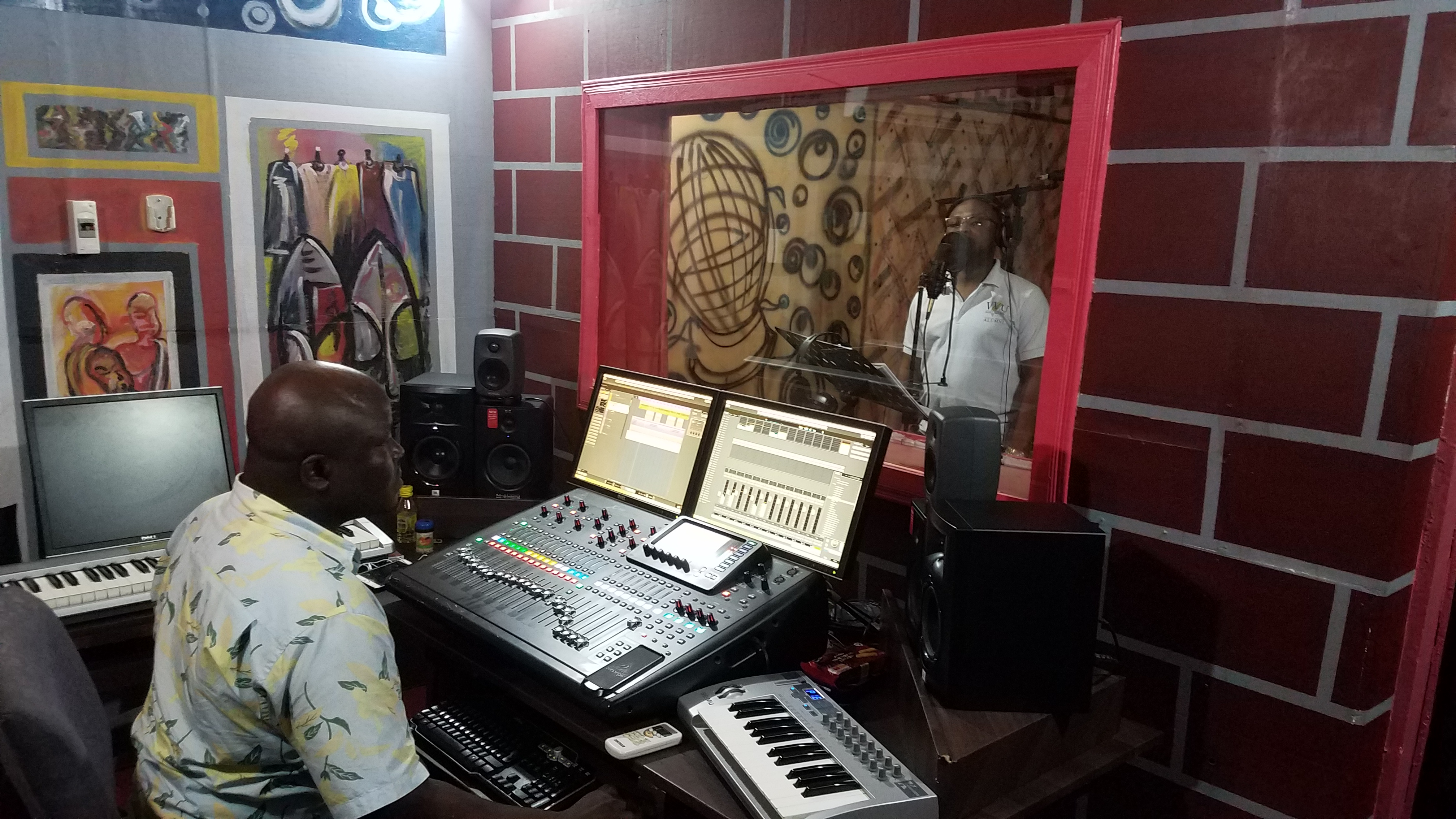 Presenter here is preparing the musician in the recording booth. This is an image of "African people at work" from Ghana